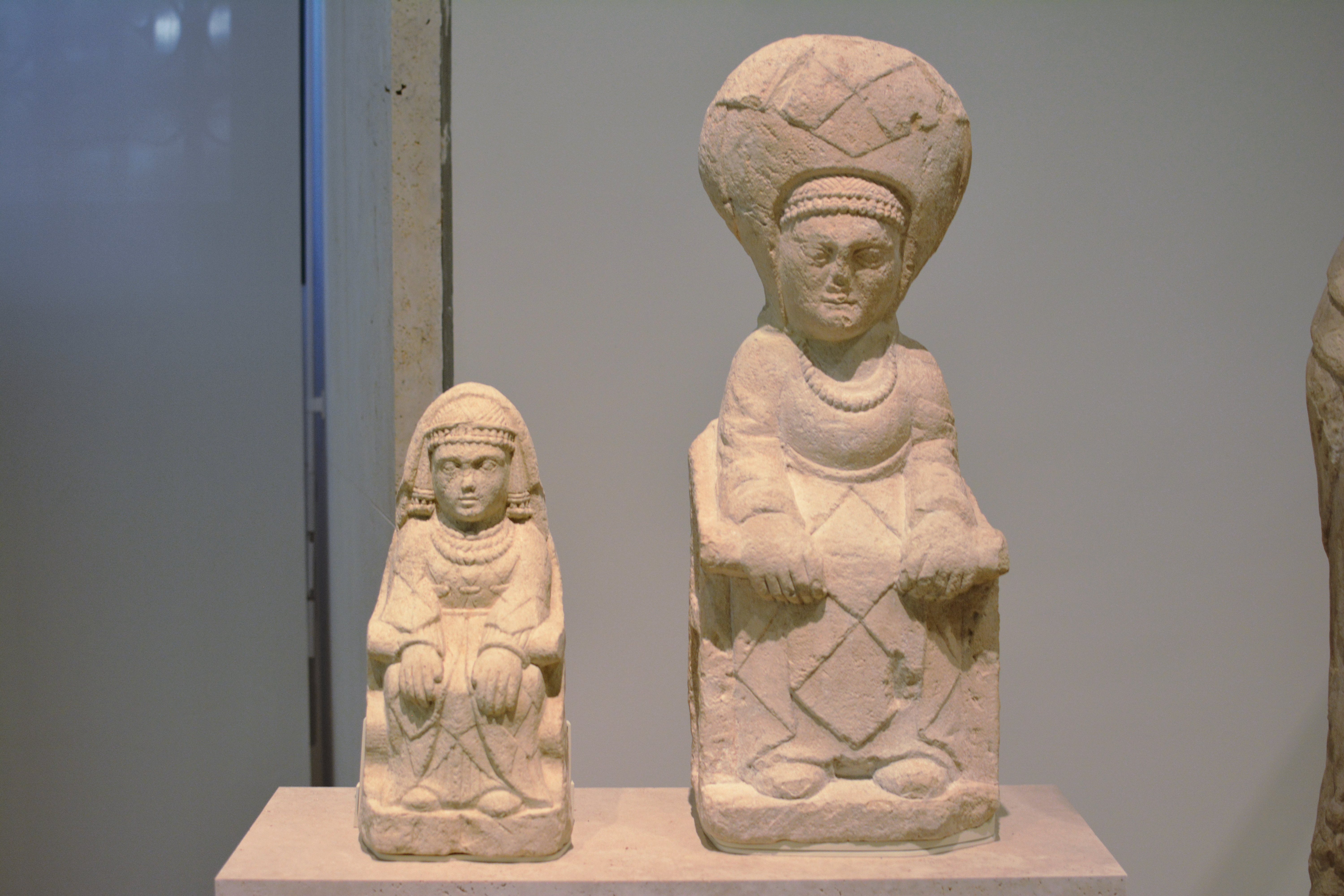 Seated ladies, "Damas sedentes," 3rd century BC. Iberian culture. Made of limestone. Shrine of Cerro de los Santos.